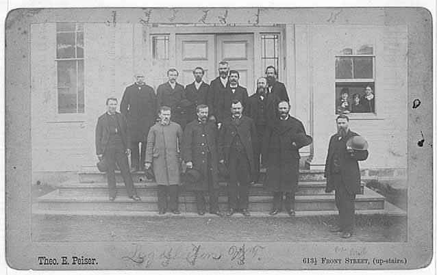 Some of the legislators names are written on the mount, and appear to include: Goodall, Butler, Mark, Shaw, Landrum . Caption on mount: Theo. E. Peiser. 613 1/2 Front Street, (up-stairs) Handwritten on verso: Legislative Committee to visit Territorial University of Washington 1883 . Peiser 180 Subjects (LCTGM): Washington Territory. Legislative Assembly--People--Washington (State)--Seattle Appears to be the same location as File:Territorial University faculty group portrait, Seattle, 1883 (PEISER 111).jpeg: presumably the front steps of the main building of the university. "Goodall" is probably M.Z. Goodell No "Butler" in the legislature at that time No "Mark" in the legislature at that time "Shaw" is probably Benjamin F. Shaw "Landrum" is probably J.B. Landrum